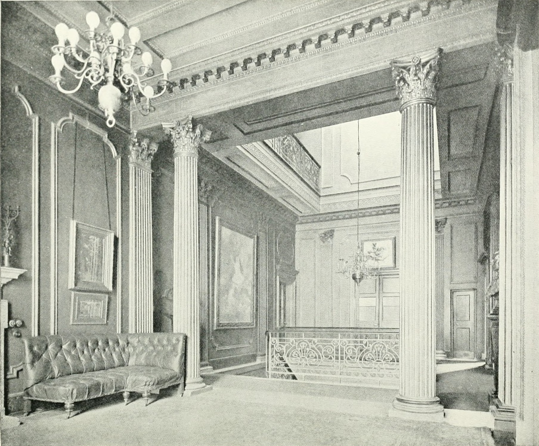 Title: The Arts Club and its members Year: 1920 (1920s) Authors: Rogers, G. A. F Subjects: Arts Theatre Club (London, England) Arts Publisher: London : Truslove and Hanson Text Appearing Before Image: ' Text Appearing After Image: 5 _ti.»v THE ARTS CLUB AND ITS MEMBERS BY G. A. F. ROGERS WITH ILLUSTRATIONS BY MEMBERS OFTHE CLUB Non ebur neque aureumMea renidet in domo lacunar. Horace. LONDONTRUSLOVE AND HANSON, LTD.1920 PRINTED IN GREAT BRITAIN. CHISWICK PRESS: CHARLES WHITTINCHAM AND GRIGGS (PRINTERS), LTD. TOOKS COURT, CHANCERY LANE, LONDON. ArtLibraryartsclubitsmembe00roge